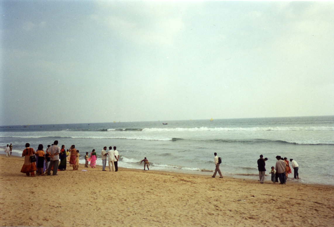 Puri beach, Puri, Odisha